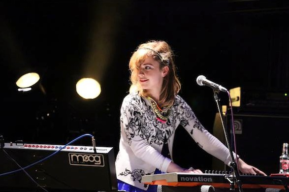 Danz of Computer Magic performing at WWW club in Tokyo, Japan.